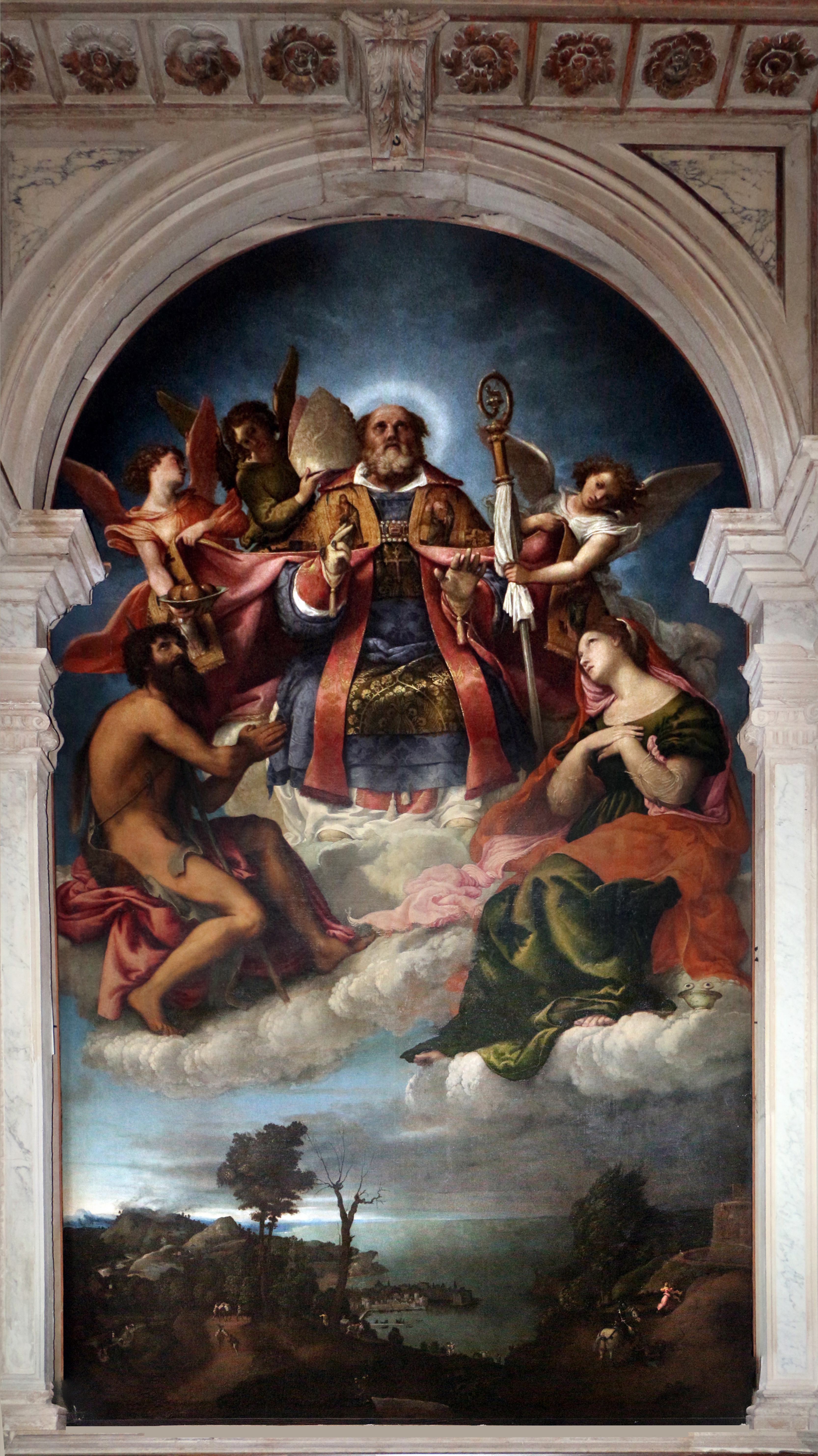 Interior of Santa Maria dei Carmini (Venice)